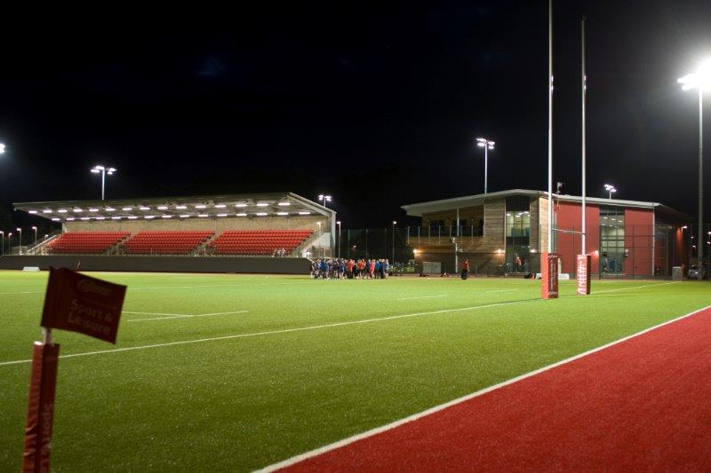 The IRB Standard 3G Rugby pitch with the Grandstand to the left of the shot